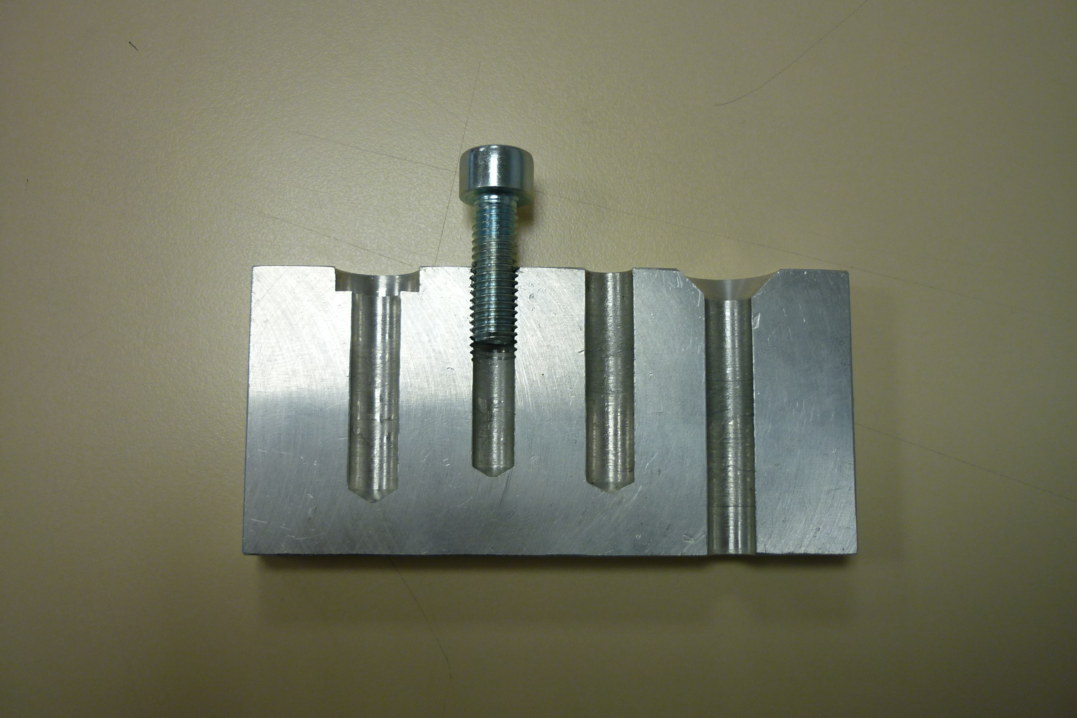 Blind holes and a screw fastened in the tapped hole. Machined in an aluminium block which was then milled.